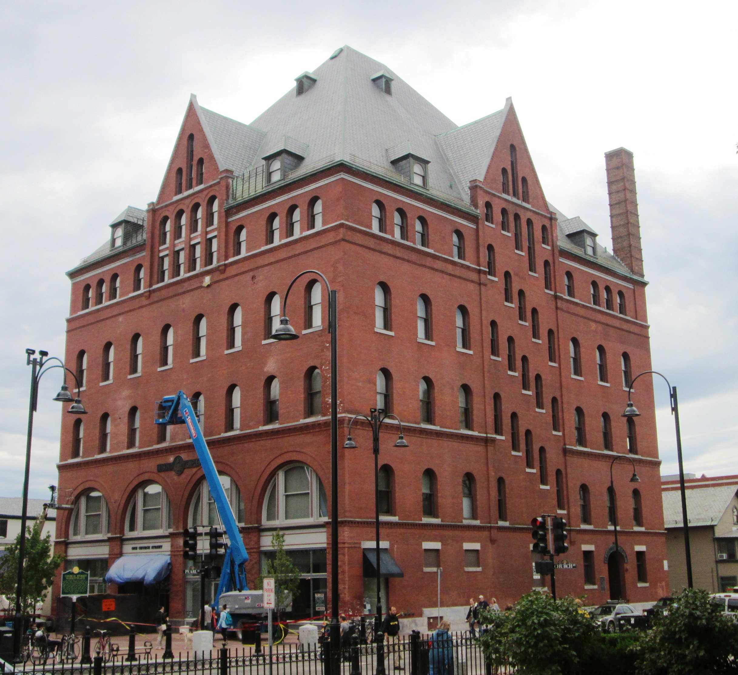 The Masonic Temple at 1-5 Church Street at Pearl Street in Burlington, Vermont was built in 1898 to be the state headquarters of the Grand Masonic Lodge of Vermont. It was designed by John McArthur Harris of the Philadelphia firm of Wilson Brothers & Company n the Richardson Romanesque style. It is one of three buildings (along with the Unitarian Church and the Richardson Building) which make up the Head of Church Historic District. (Source: [1])